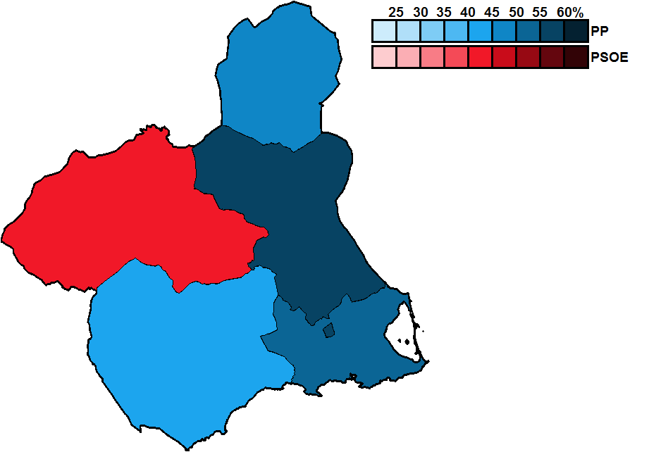 District results for the 1995 Murcian regional election.